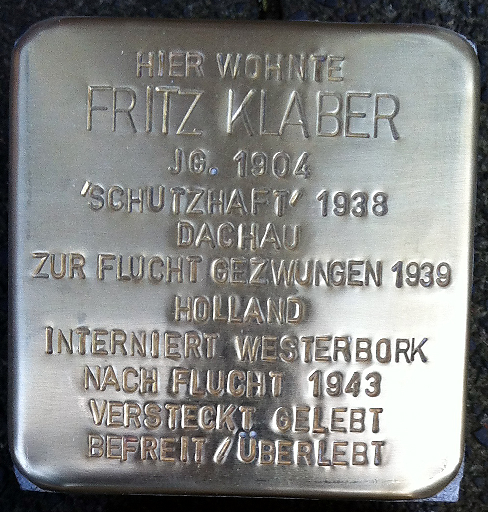 Stolperstein - Stumbling Stone in Nettetal, NRW, Germany Fritz Klaber